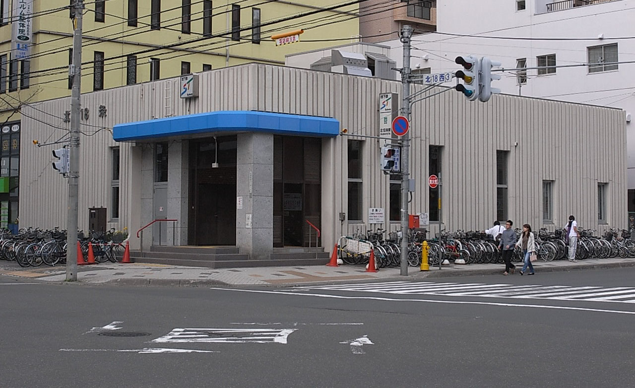 Sapporo city subway Kita18jo station